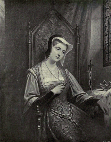 Dutch Art in the Nineteenth Century